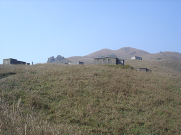 Approach to Sunshine Peak